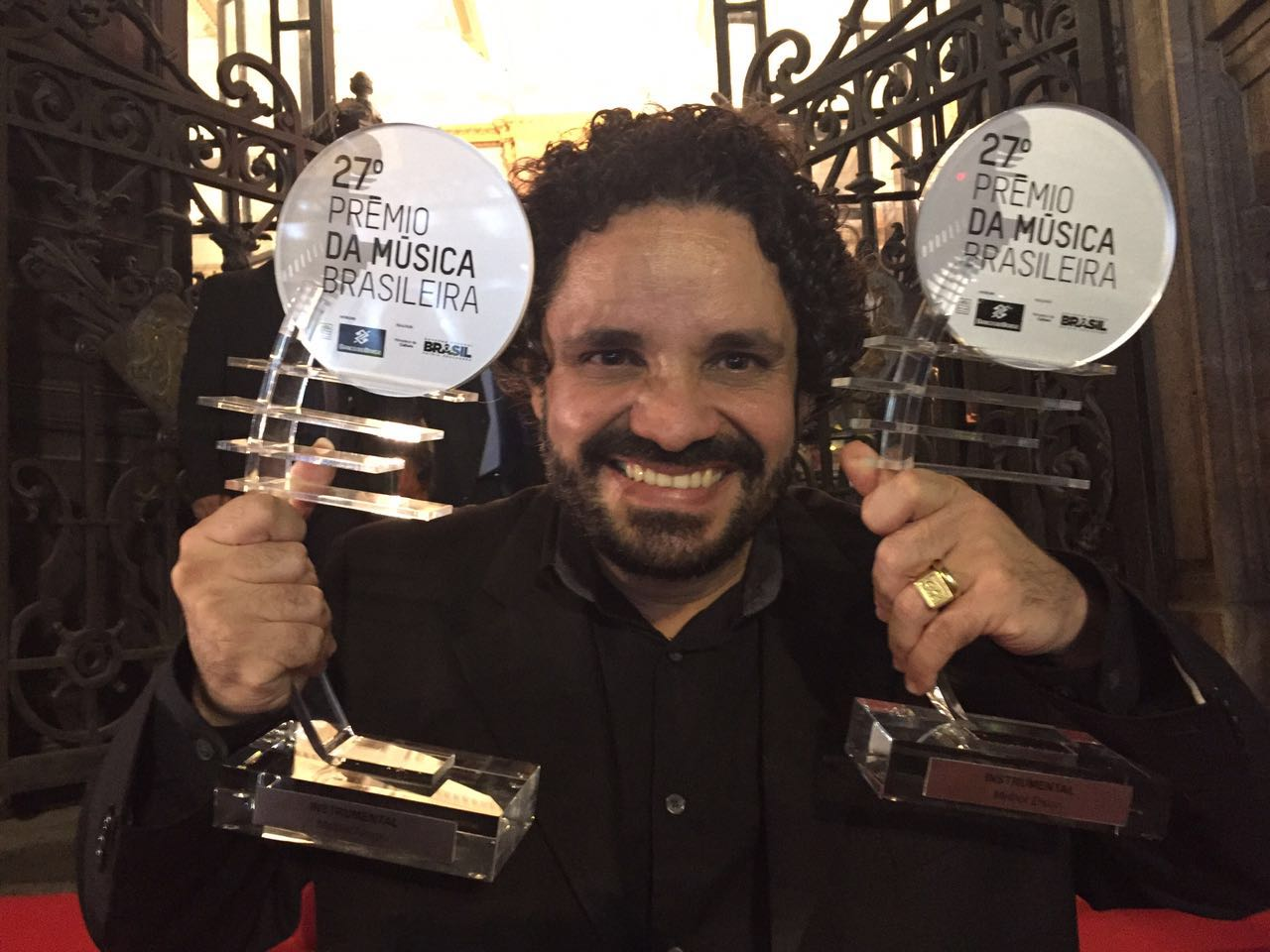 27 Prêmio da Música Brasileira